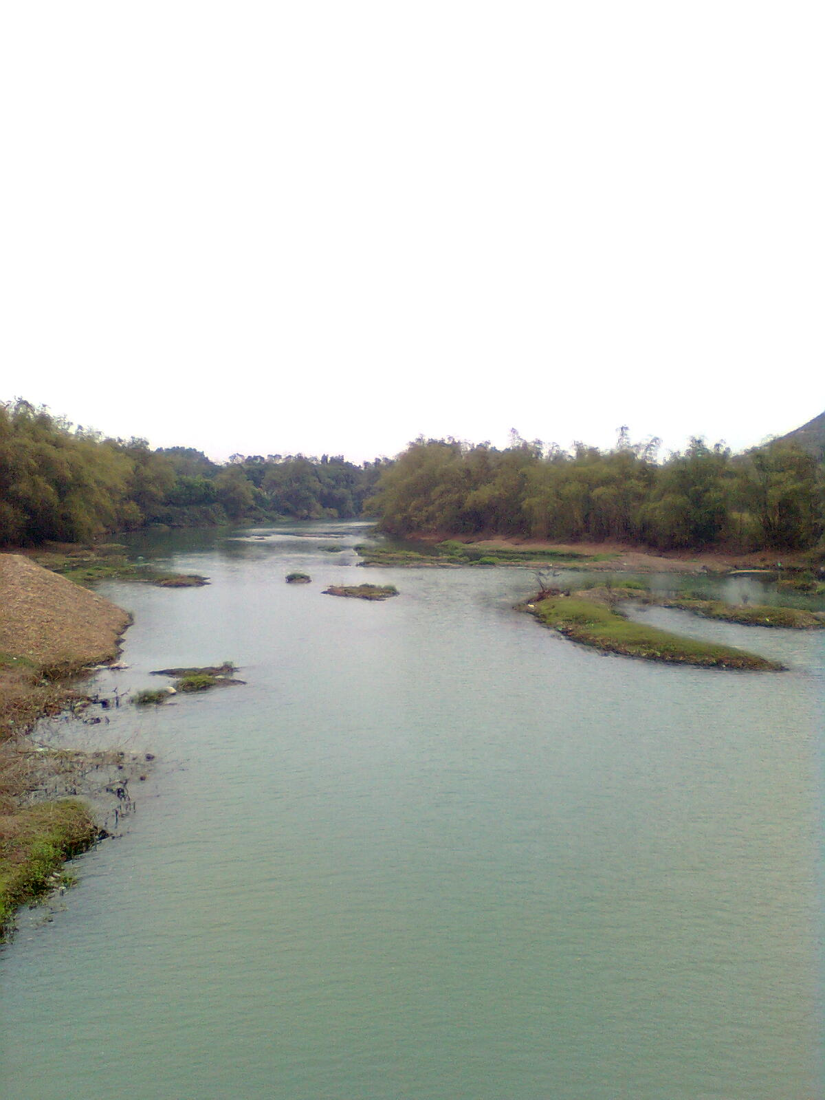 Công River in Sông Công town, Thai Nguyen Province, Viet Nam